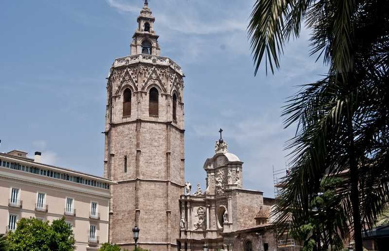 View of the Micalet's tower from Plaza de la Reina